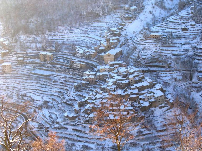 Carpasio in Snow